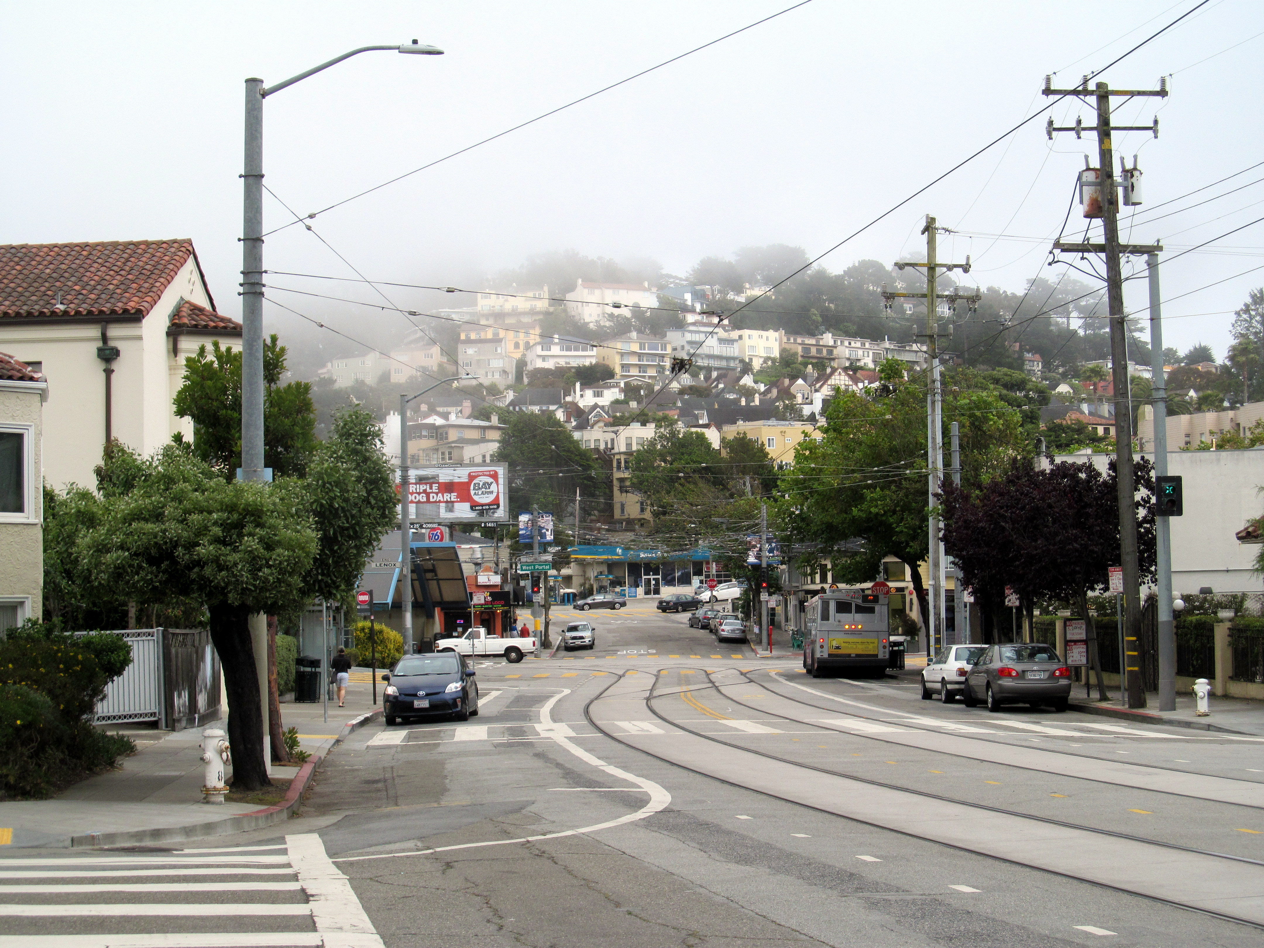 A foggy day on Ulloa Street in West Portal, San Francisco in June 2017